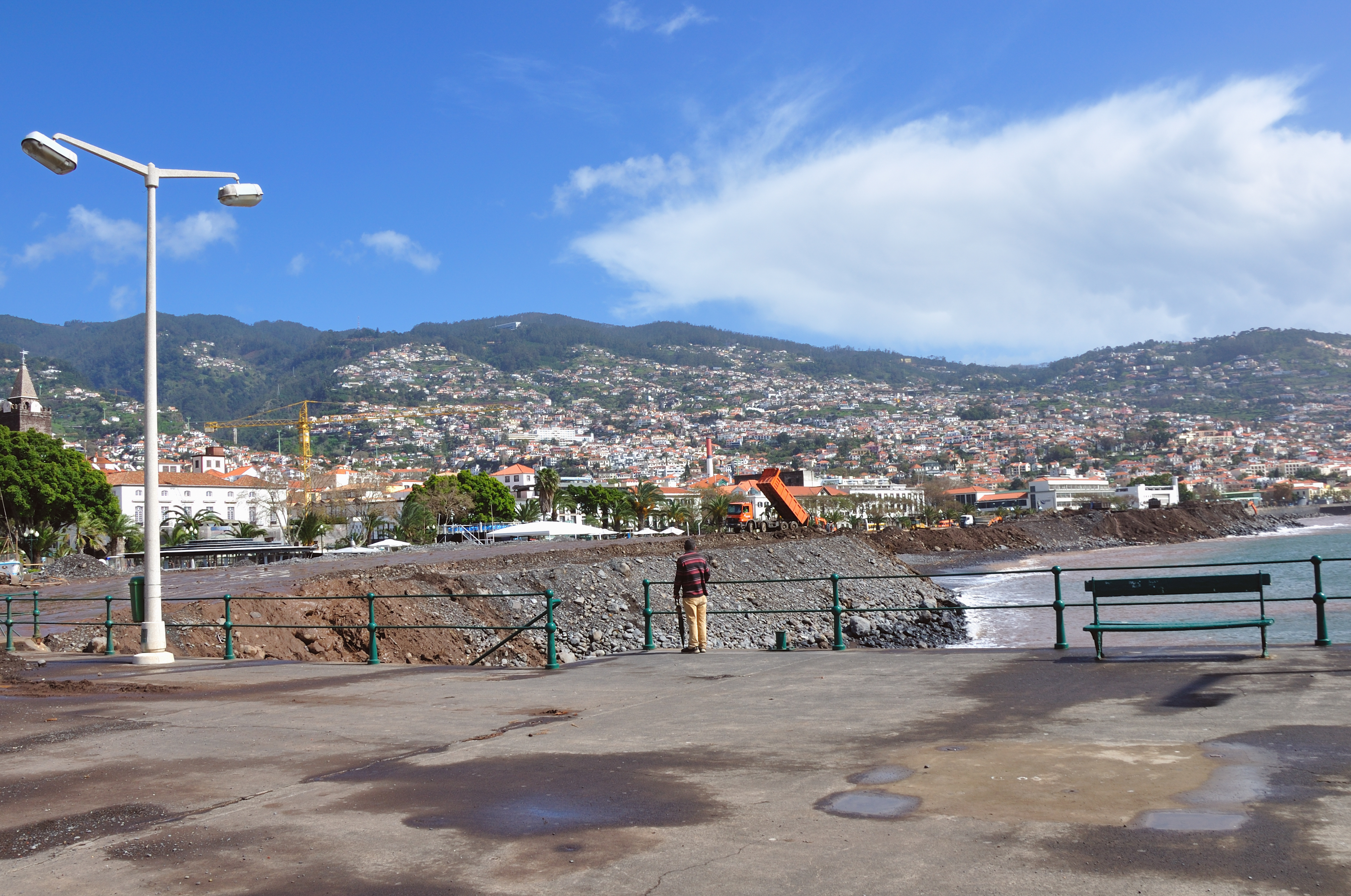 Portugal, Funchal after the flood